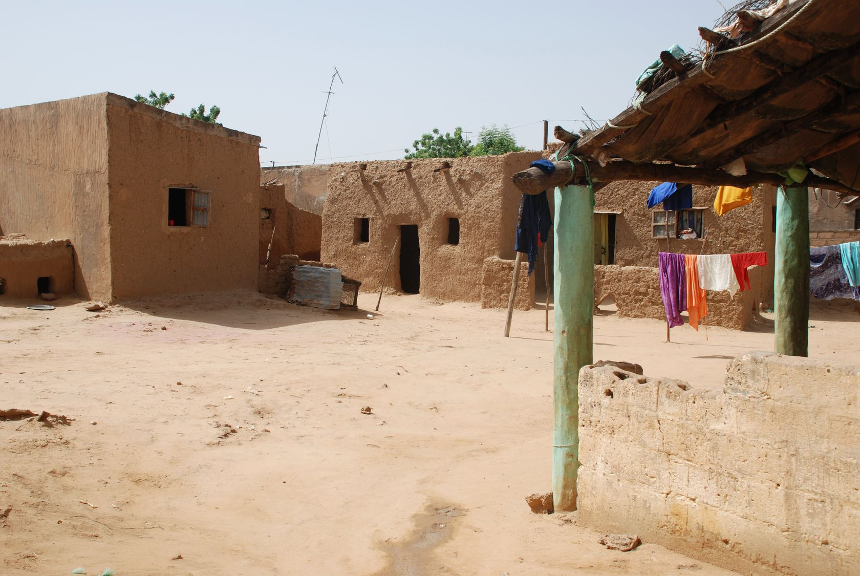 Kaédi, Mauritania, traditional Soudans house